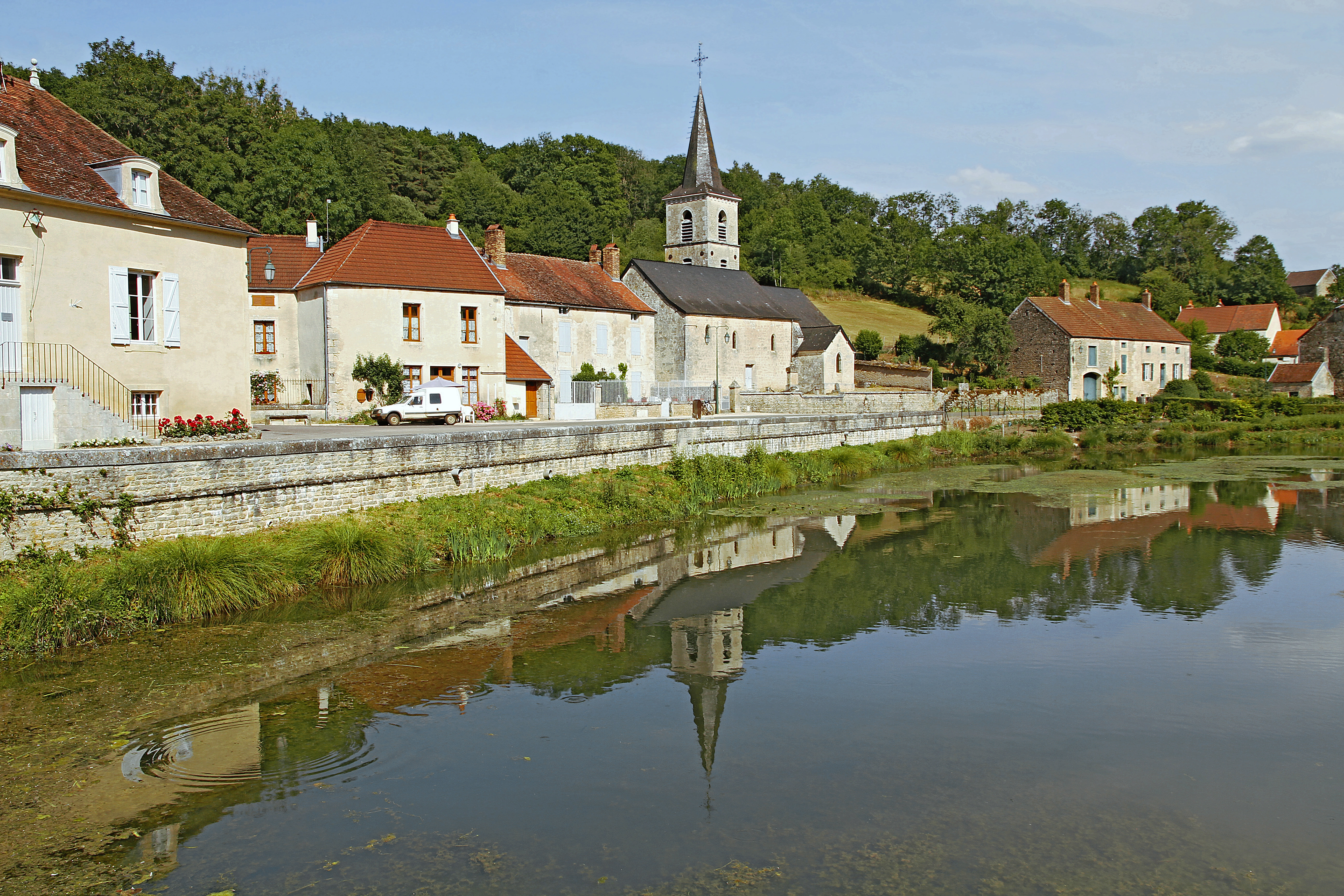 The river Brévon in Rochefort-sur-Brévon